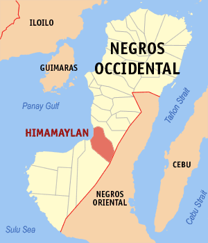 Map of Negros Occidental showing the location of Himamaylan